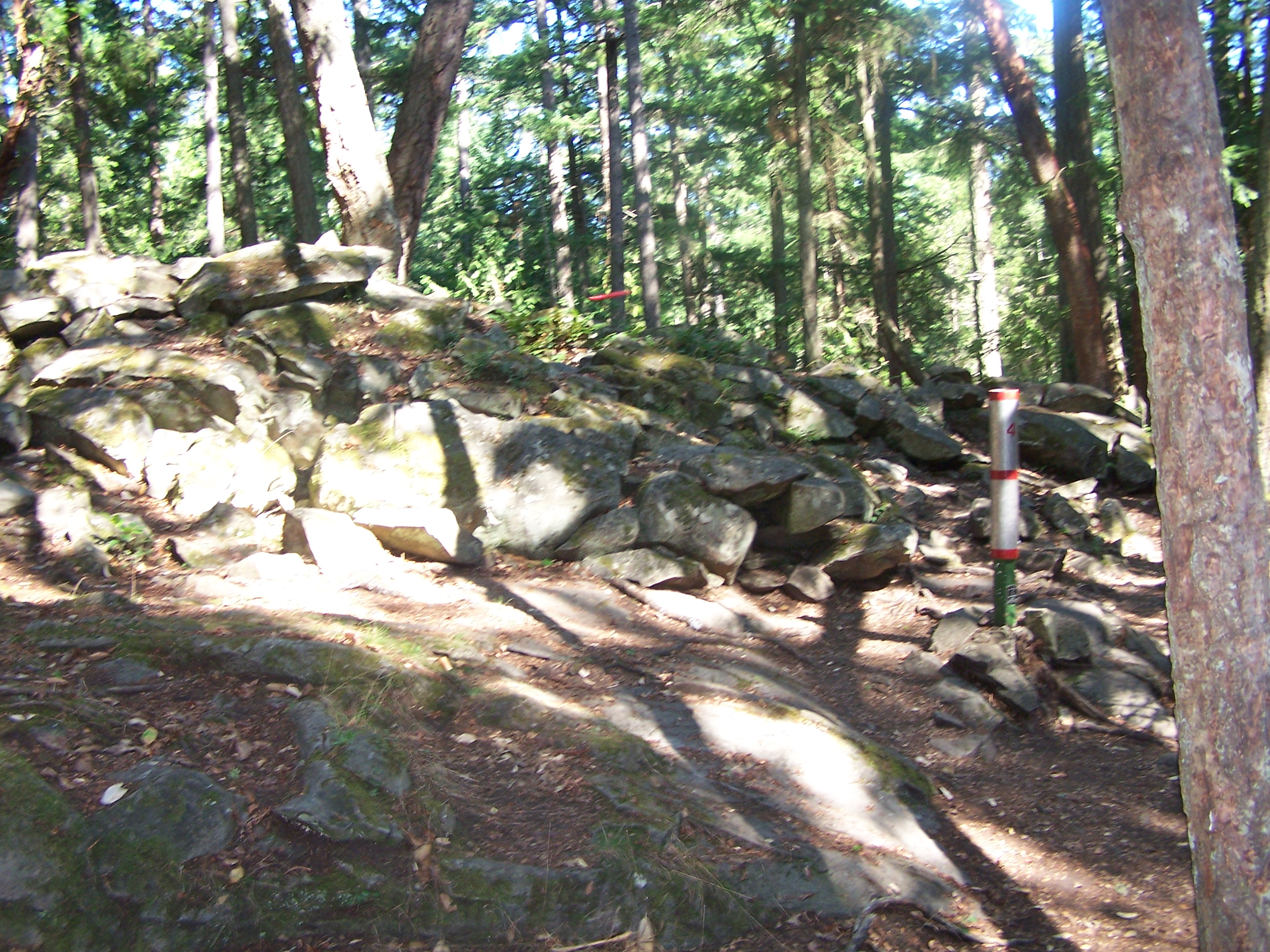 A red disc sailing toward a "Tone Hole" style Disc Golf target on Pender Island. On the Disc Golf course on Pender Island, the first nine holes are Tone Holes, and the tenth to eighteenth holes use metal baskets.